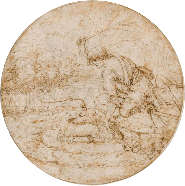 This Pen and brown ink over traces of black chalk on paper drawing depicts a hunter capturing an ermine. Itis perhaps intended as the design for the reverse of a medal. According to legend, ermines will protect their immaculately white fur from soiling, even at the risk of death. This is why the ermine served as the visualisation of the knightly motto about personal honour: Better dead than dishonoured.